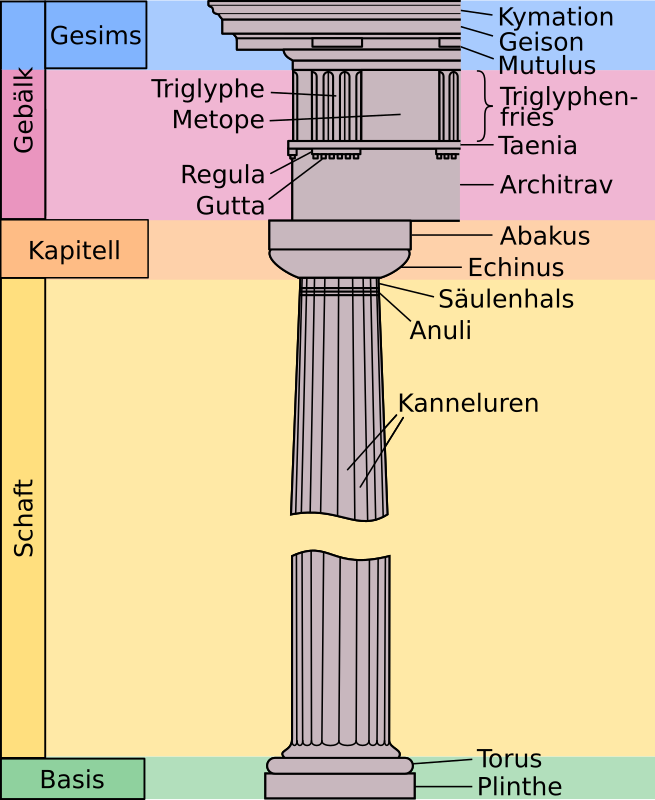 doric column